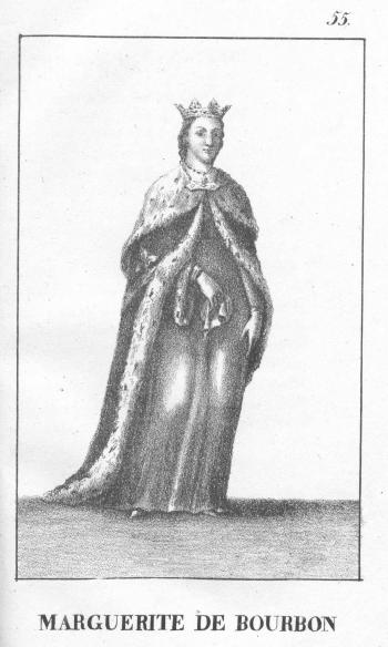 Margaret of Bourbon